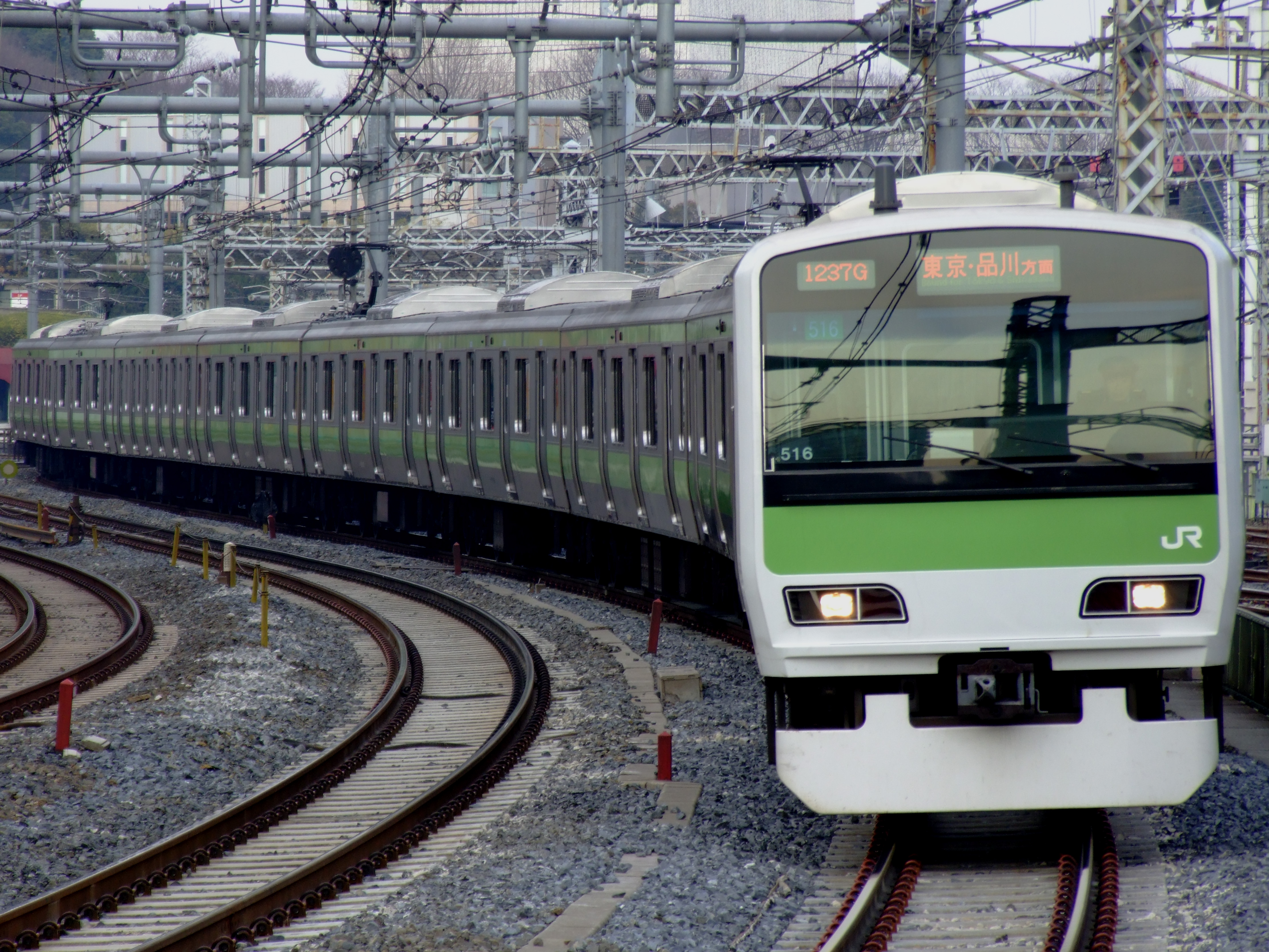 Train of Yamanote Line (series 231)